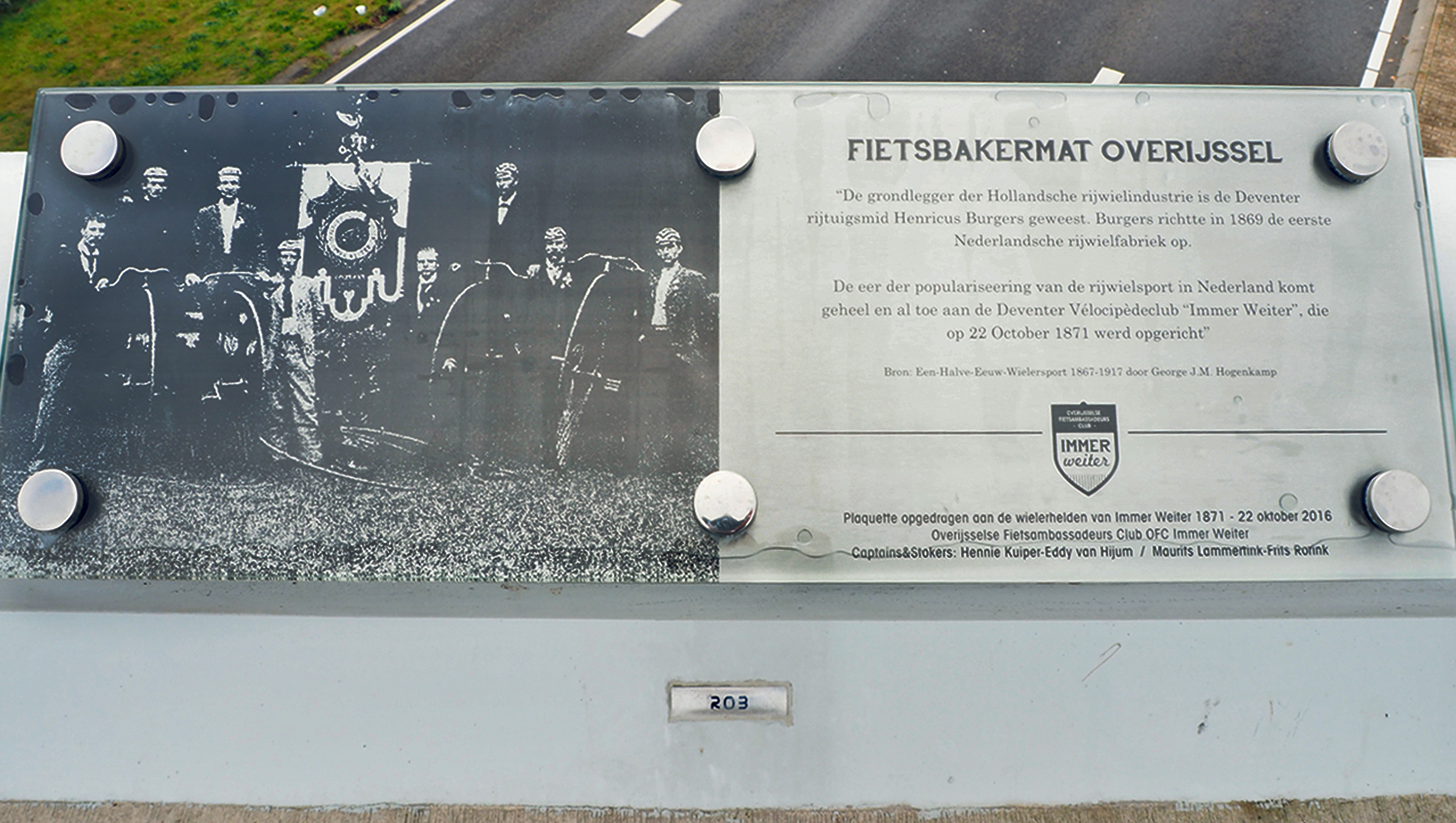 The Immer Weiter Memorial sign on top of the Immer Weiter bridge, Deventer